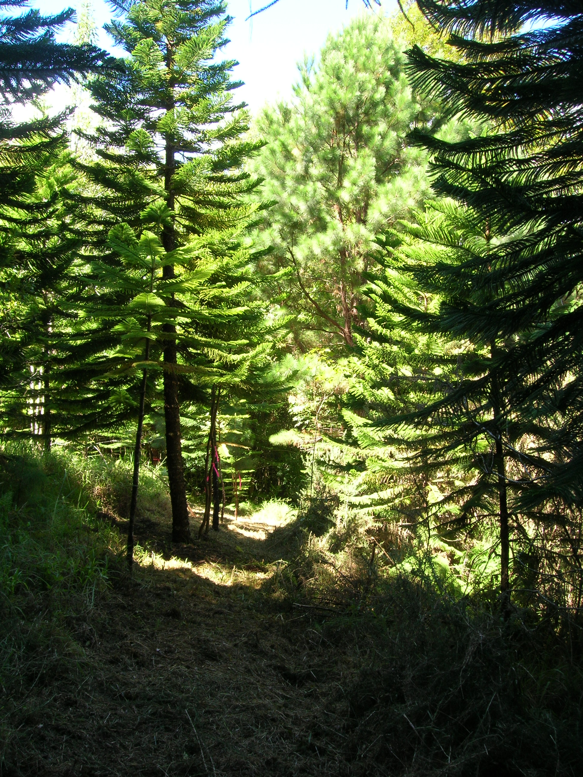 Araucaria columnaris (trail building). Location: Maui, Makawao Forest Reserve